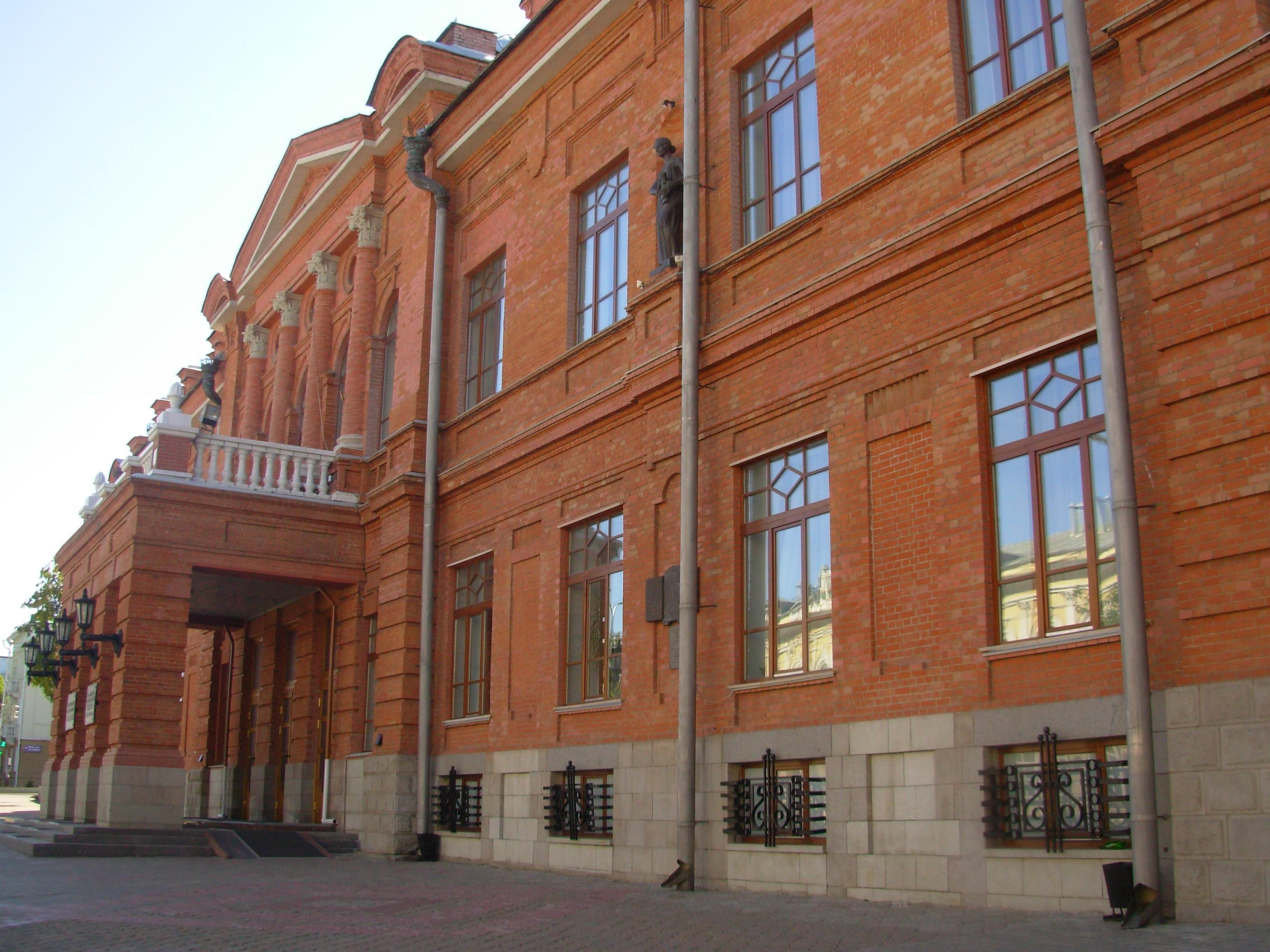 Ufa 2012